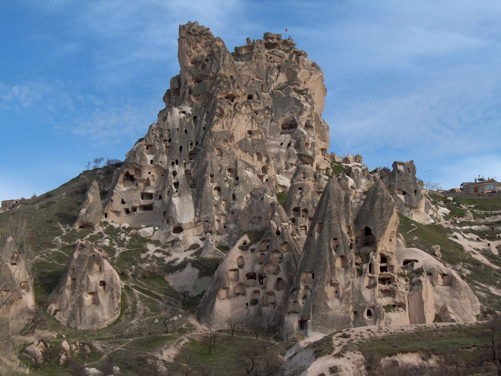 Duivenvallei, Uçhisar; Cappadocië, Turkeye